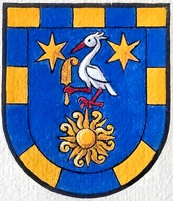 Arms of Nico F. Declercq (Kortrijk, Belgium, 27 December 1075) and his descendants, according to heraldic laws, image appeared in the old armoral of SCHWEIZERISCHE HERALDISCHE GESELLSHAFT (SHG) (Société Suisse d'Héraldique; Società Svizzera di Araldica), artwork by Marco Foppoli (Heraldic Artist and official "[Wappenmeister|Weapons_master]" of the SHG). Blazon: A la bordure componnée de quatorze pièces d’or et d’azur dont cinq au chef, un écusson d’azur, a une grue d’argent sur pied, membrée et becquée de gueules, tenant de la patte dextre une plume d’oie taillée d’or posée en pal, accompagnée en chef de deux étoiles radiée de 6 pointes d’or et en ponte un soleil d'or. (